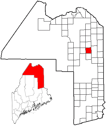 Adapted from U.S. Census Bureau maps (American FactFinder) and Wikipedia's ME county maps by Bumm13.